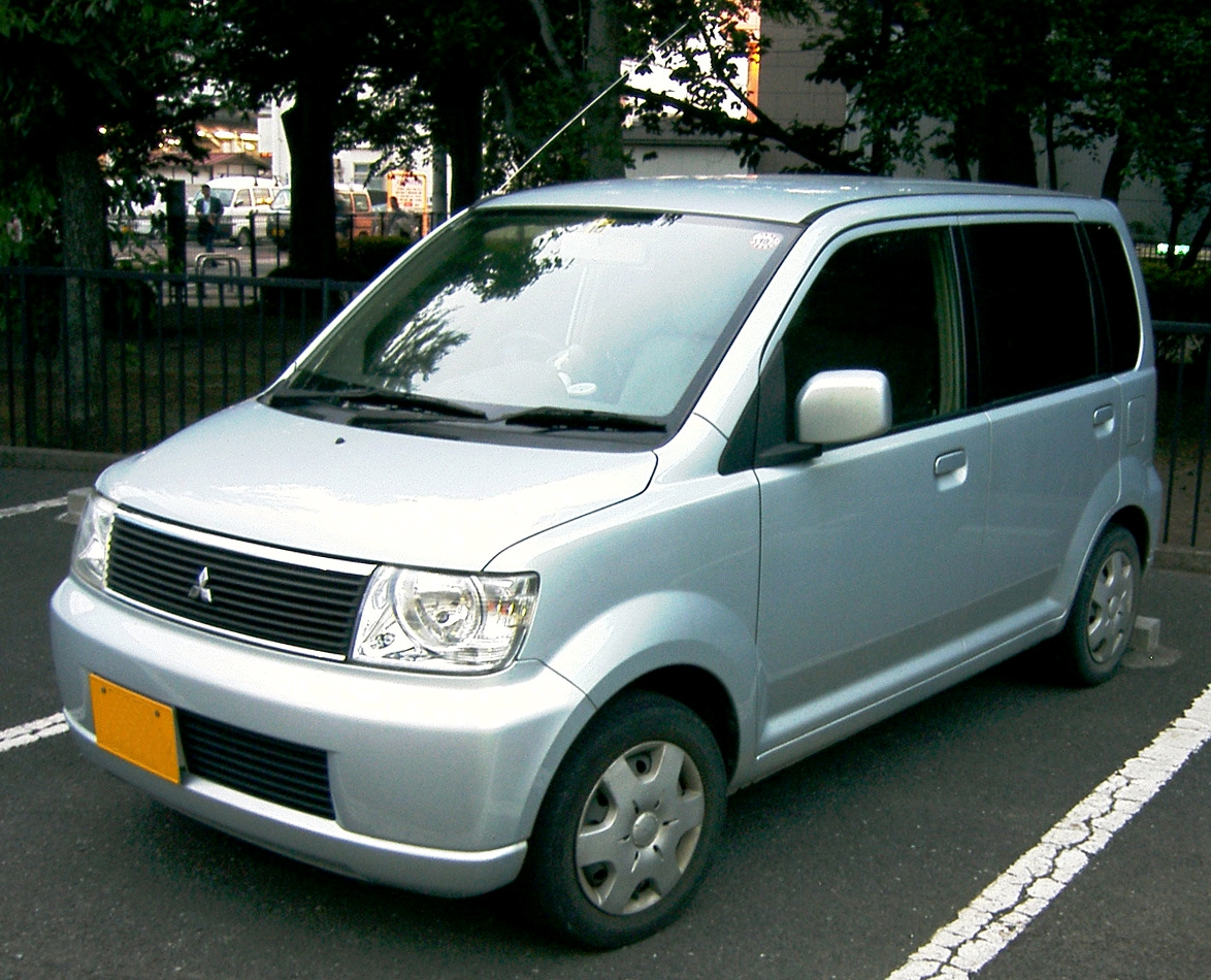 MITSUBISHI MOTORS JAPAN_ek Wagon first version